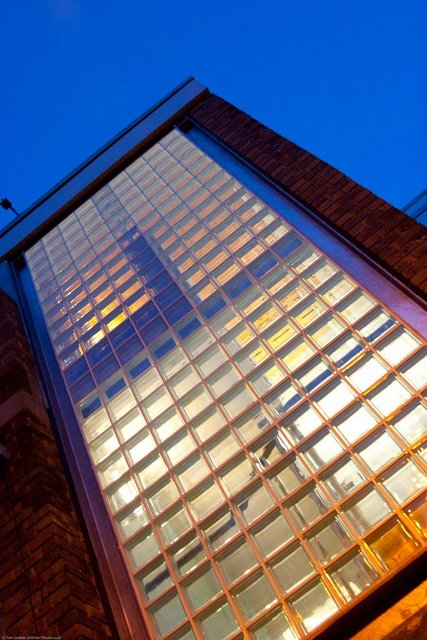 Glass bricks outside the staircase of asome flats, next to the New River Walk in Islington. Taken at dusk.